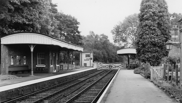 Baynards Station. Near to Rudgwick, West Sussex, Great Britain. View SE, towards Christs Hospital and Horsham; Guildford - Christs Hospital Horsham branch, closed (Peasmarsh Junction - Stammerham Junction) 14/6/65.